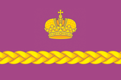 Flag of Olginskoe rural settlement (Primorsko-Akhtarsky rayon), Krasnodar Territory, Russia